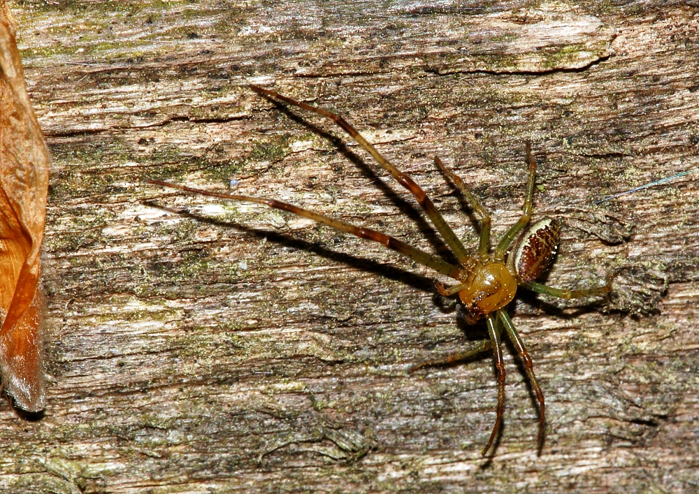 Diaea livens Simon, 1876, det. Sarefo, Thomisidae, Mörfelden, Hesse, Germany